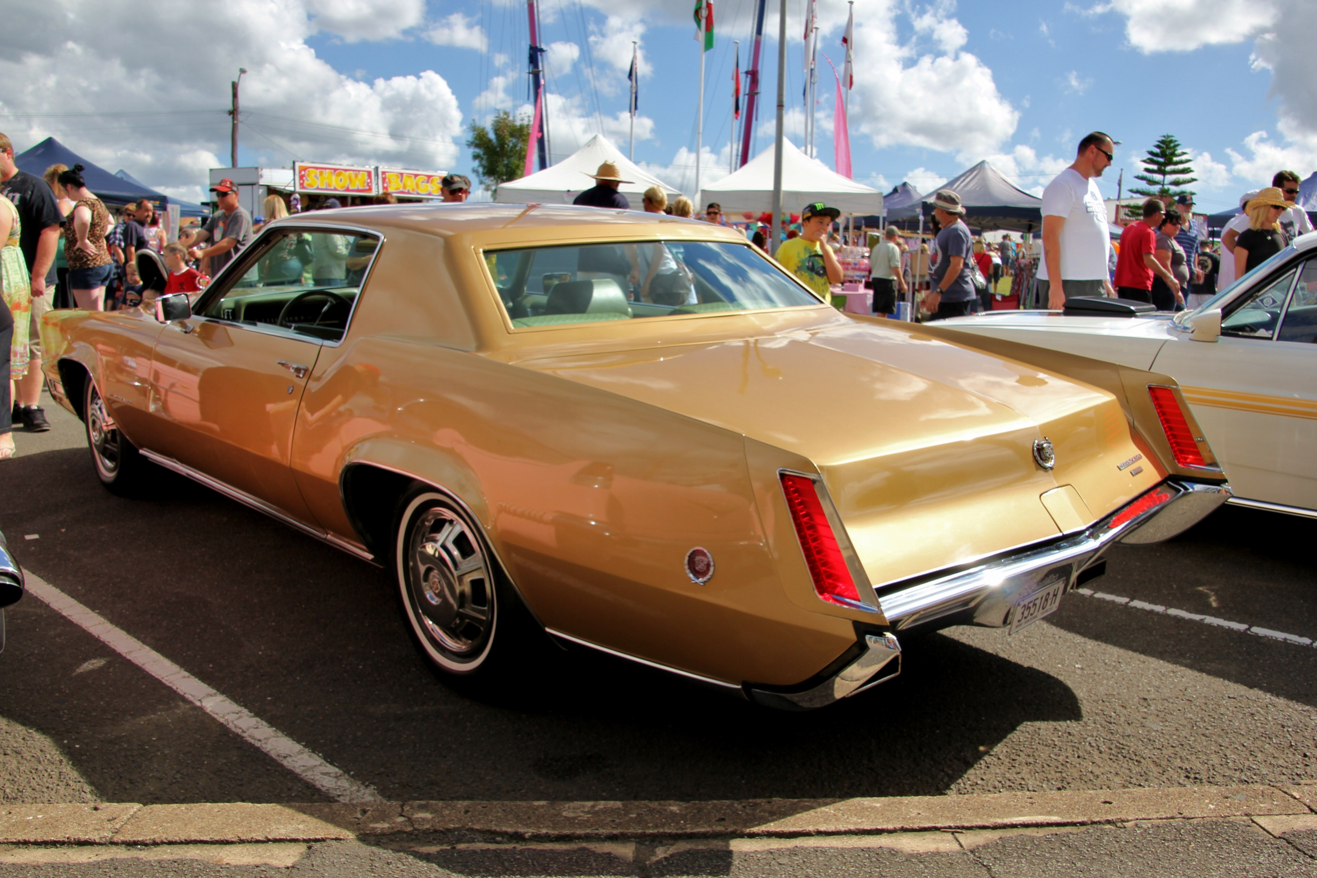 1968 Cadillac Fleetwood Eldorado coupe. Taken at the 2012 Kurri Kurri Nostalgia Festival, held in Kurri Kurri, New South Wales.